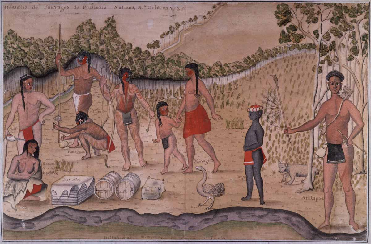 De Batz watercolor paintings of southeastern Indians